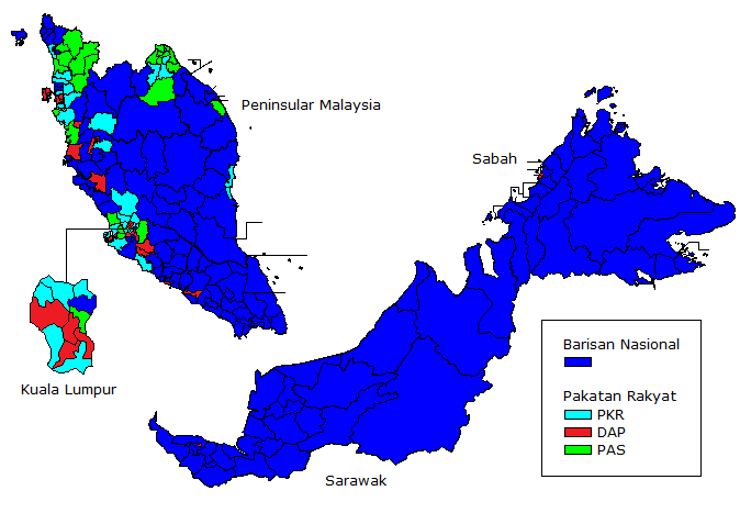 Kuala Lumpur. Parliamentary results of 2008 Malaysian general election.